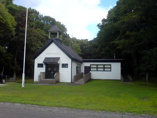 Picture of the one-room schoolhouse on Prudence Island, Rhode Island, USA. The schoolhouse was constructed in 1897, with the addition of indoor bathrooms and a kitchen in 1951. It is the last one-room schoolhouse in use in Rhode Island, and it is possibly the last one in use by a public school system in the USA.